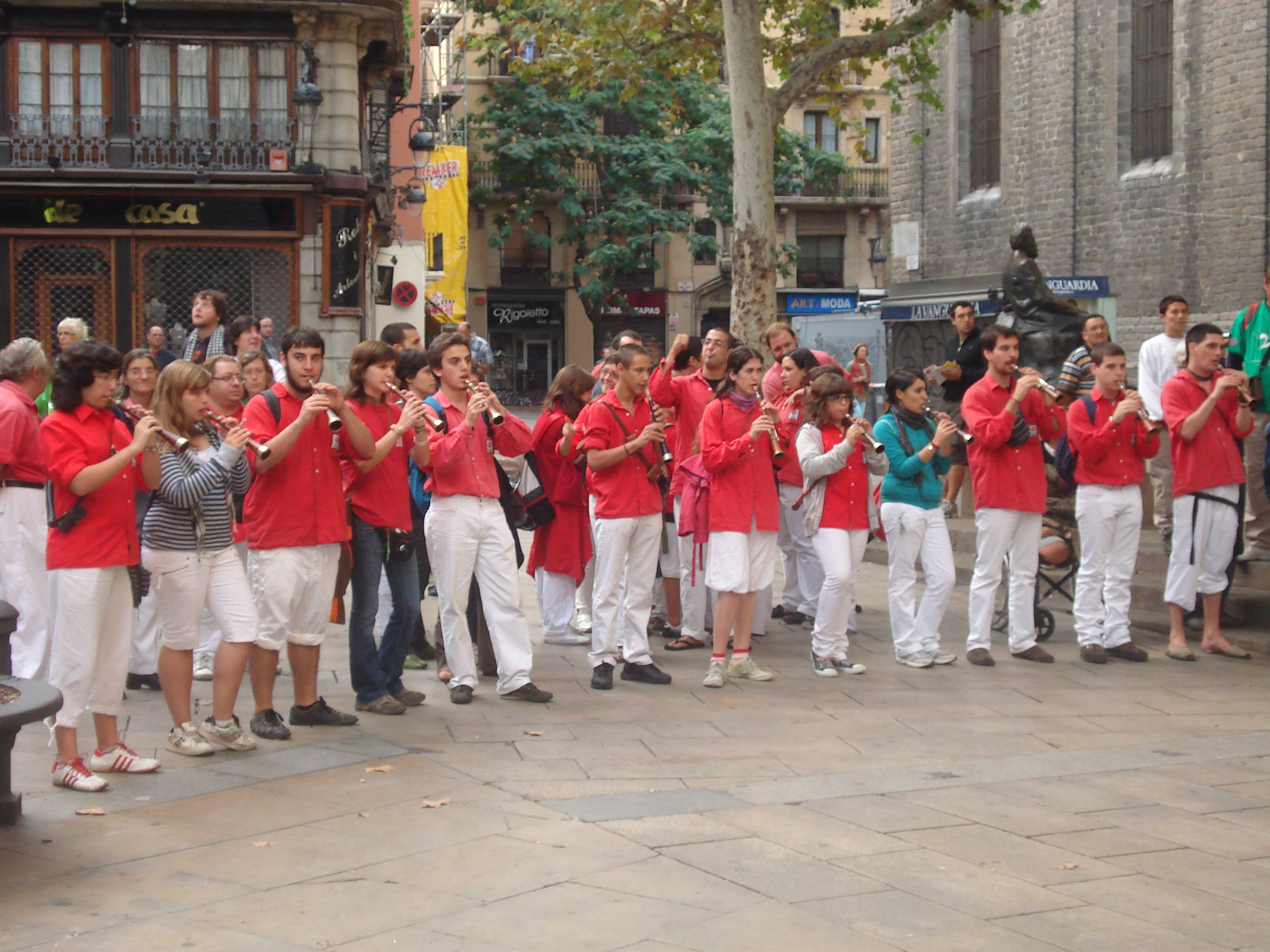 Grallers of the Castellers de Barcelona.